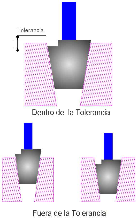 Go-NoGo gauge control of conical screw thread